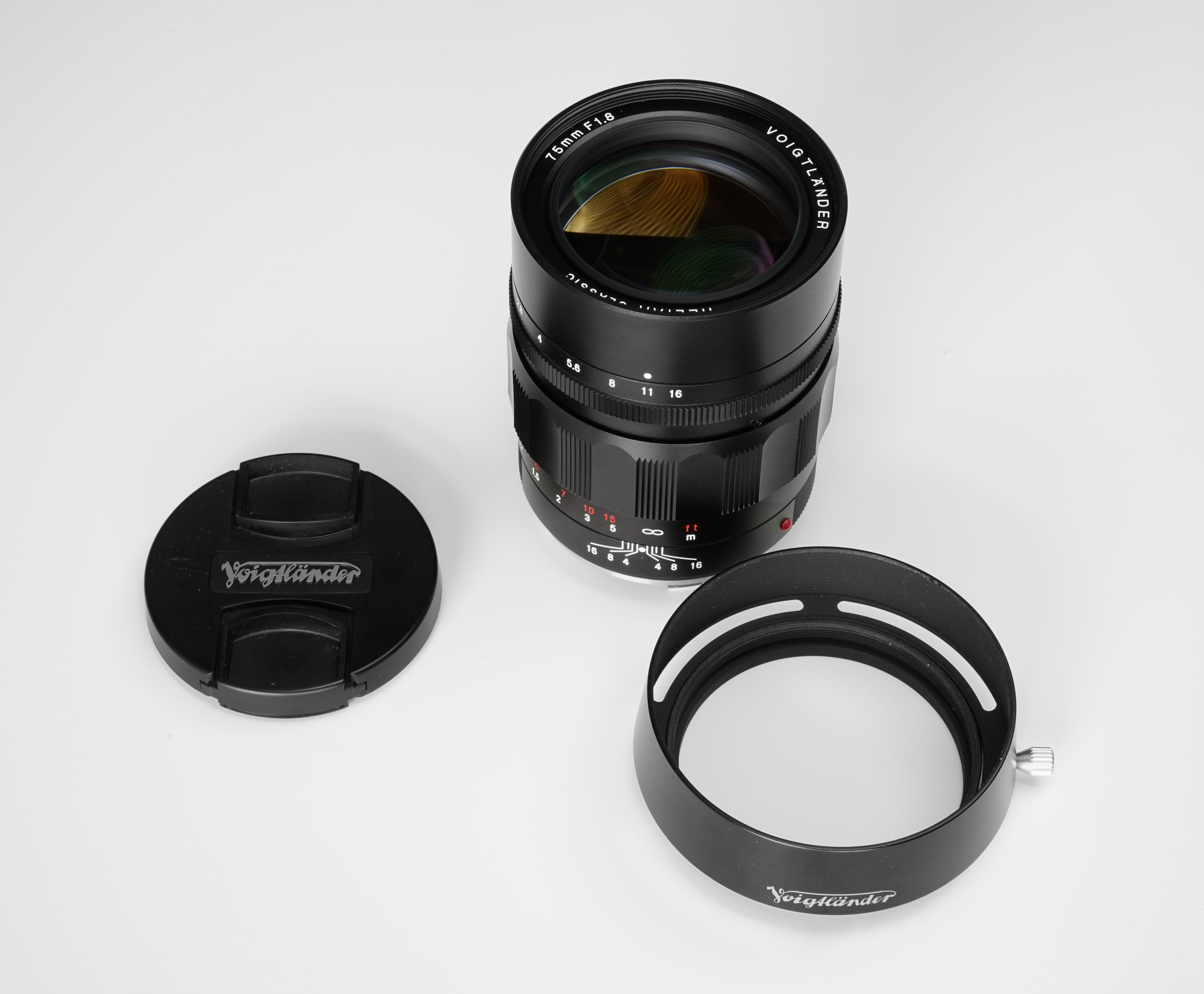 The Voigtländer Heliar Classic 75mm f/1.8 VM lens for the Voigtländer VM mount, shown here with lens hood and lens cap.